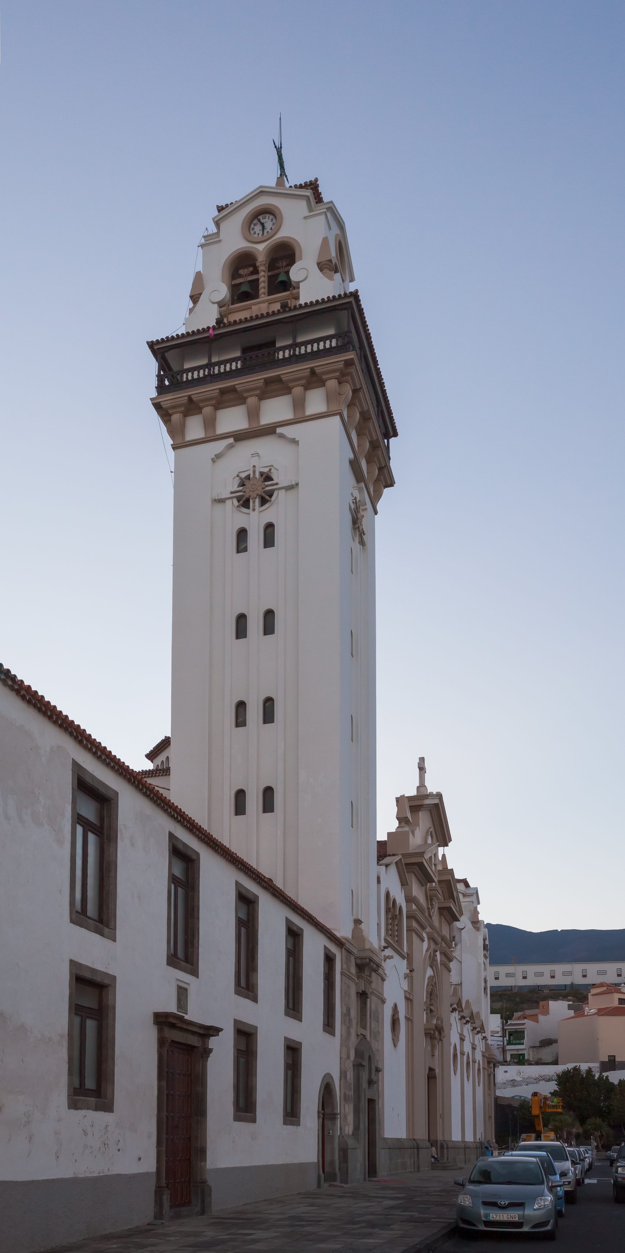 Basilica of Nuestra Señora de la Candelaria, Candelaria, Tenerife, Spain